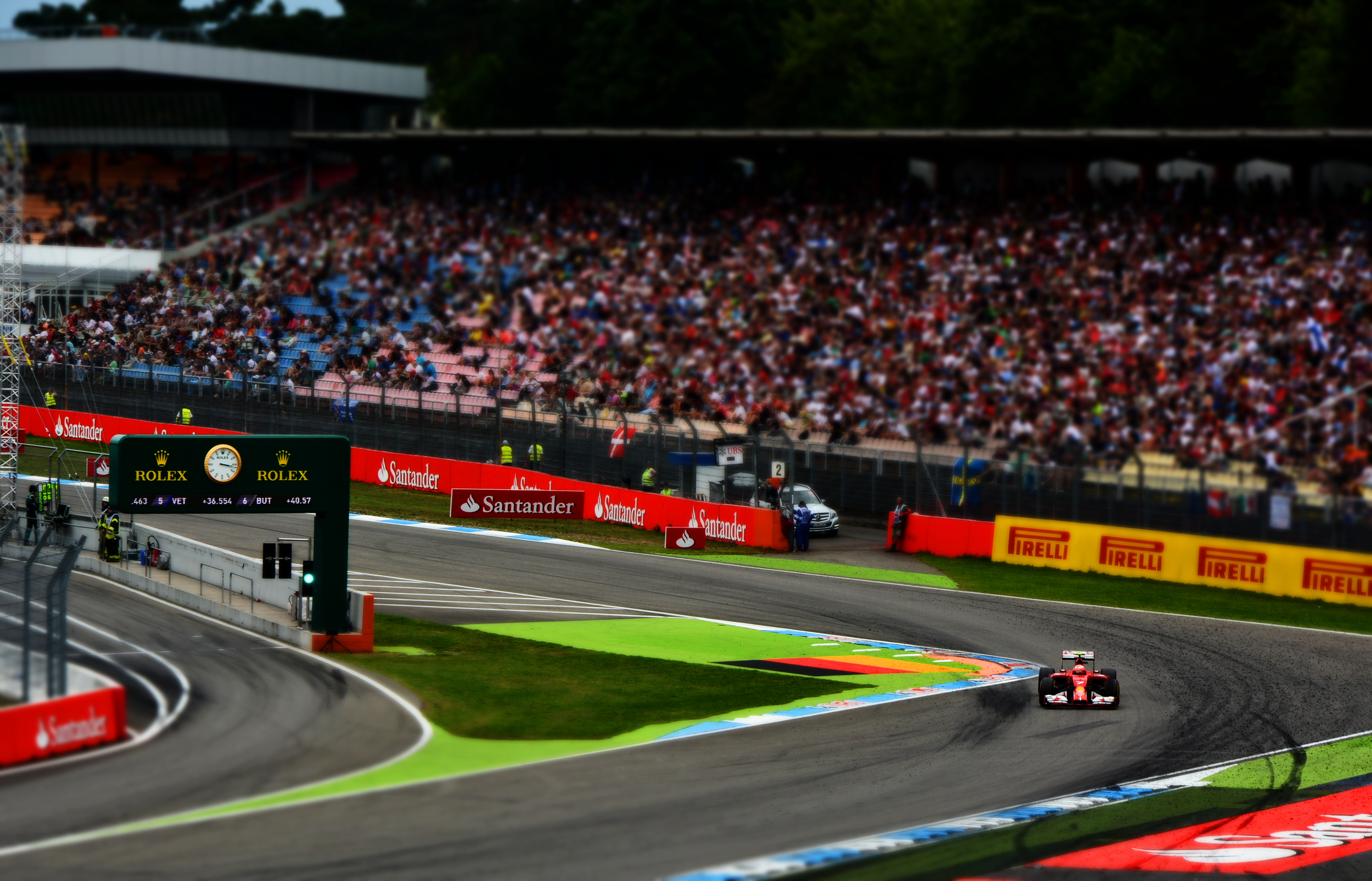 Kimi Raikkonen driving through the first turn of the Hockenheimring at the 2014 German Grand Prix